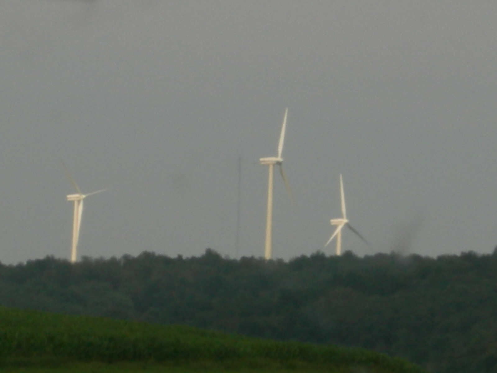 Madison Wind Farm from U.S. Route 20. Taken by Sgt. bender or Dr. orfannkyl, his brother. I don't remember.